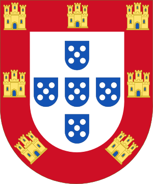 Shield of the Kingdom of Portugal after D. John IV of Portugal and II of Braganza, 21st King of Portugal